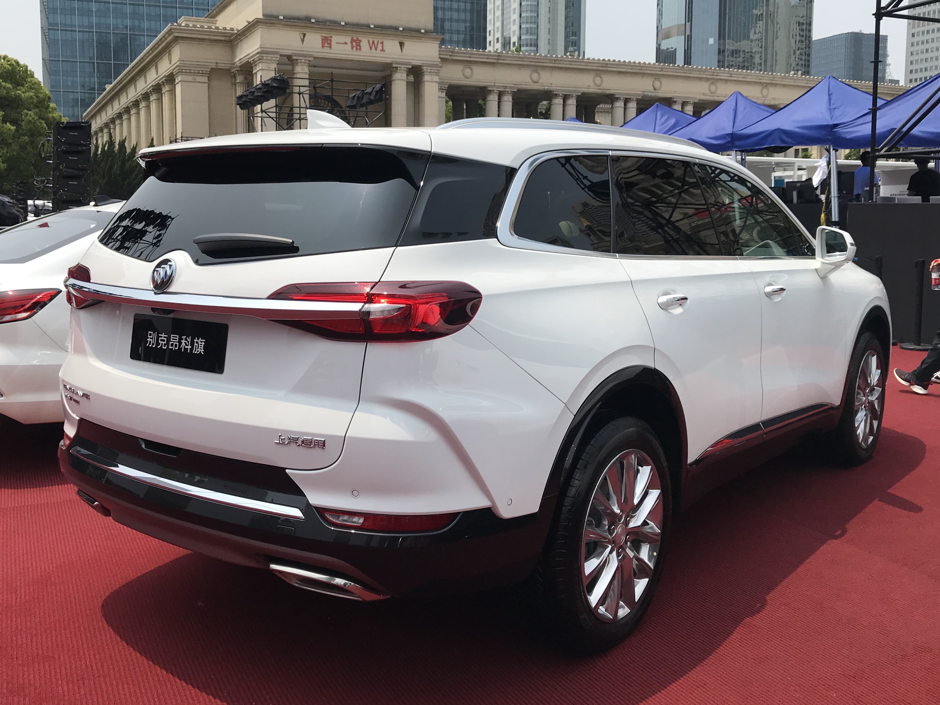 Buick Enlave second generation Chinese version